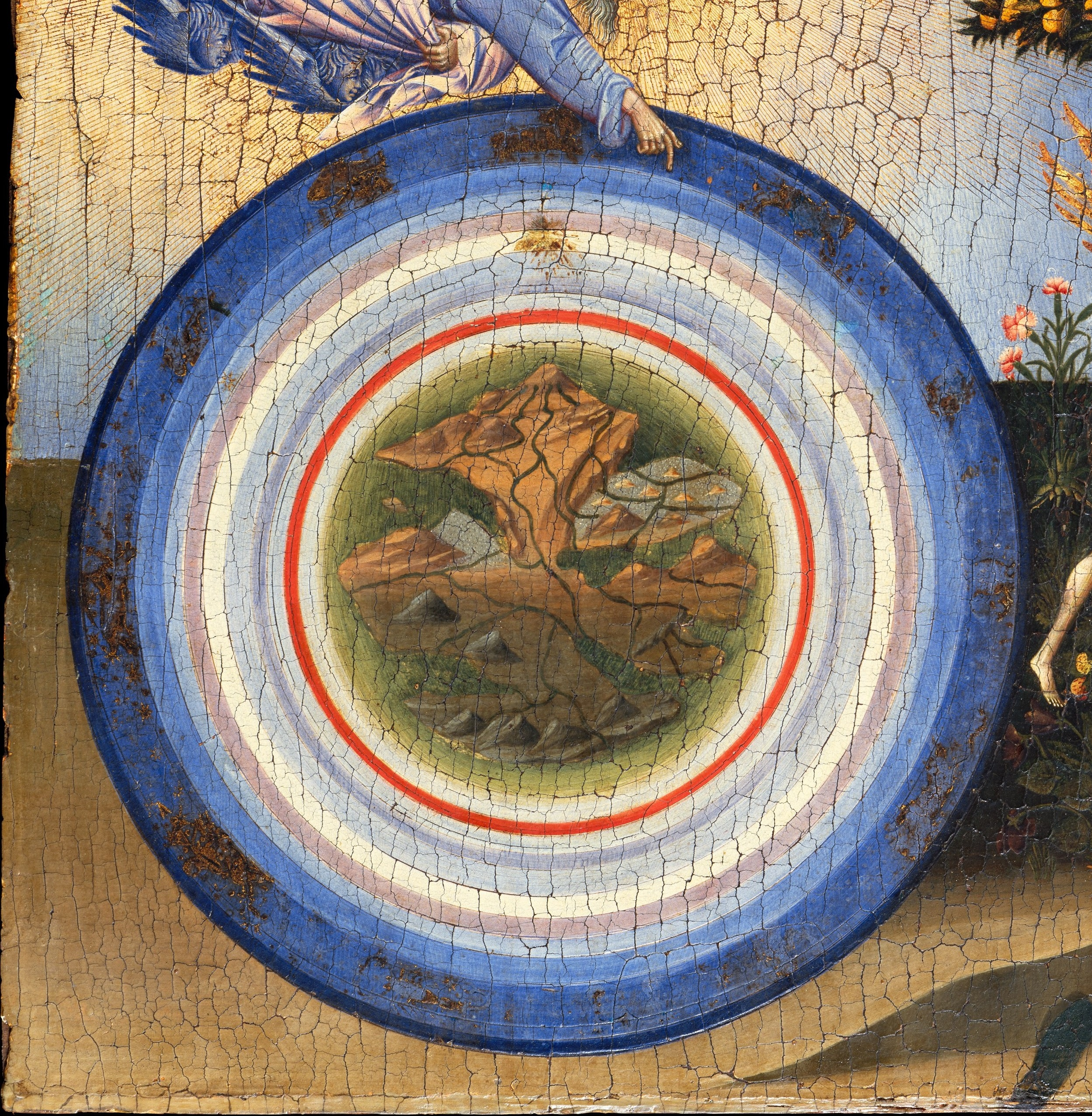 Mappa mundi in "Creation and the expulsion from the paradise" by Giovanni di Paolo